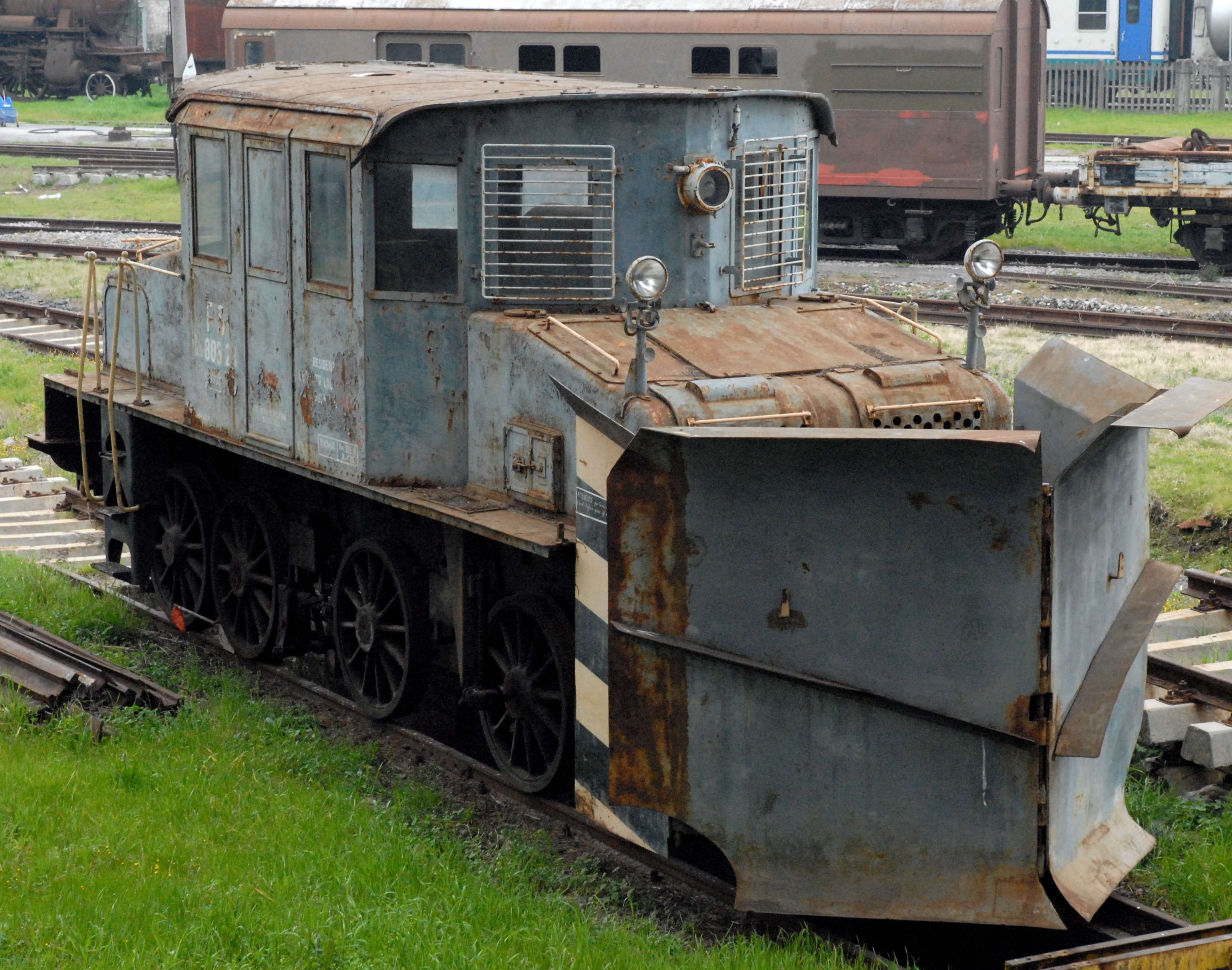 Photos from the FS railway deposit in Pistoia, Italy. Italian snowplow made by transformation of the old electric Trifase locomotive E.550